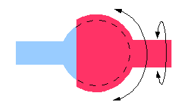 Ball and joint schematics. 2006.